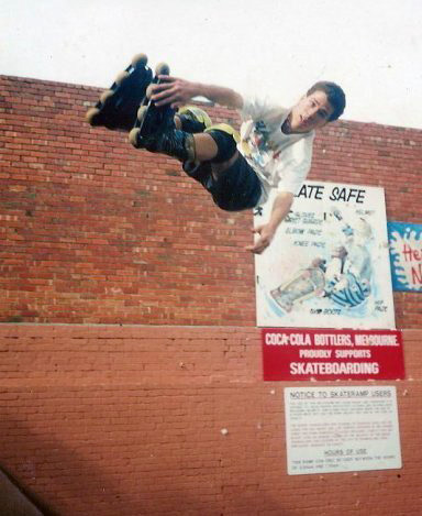 Manuel Billiris vert skating